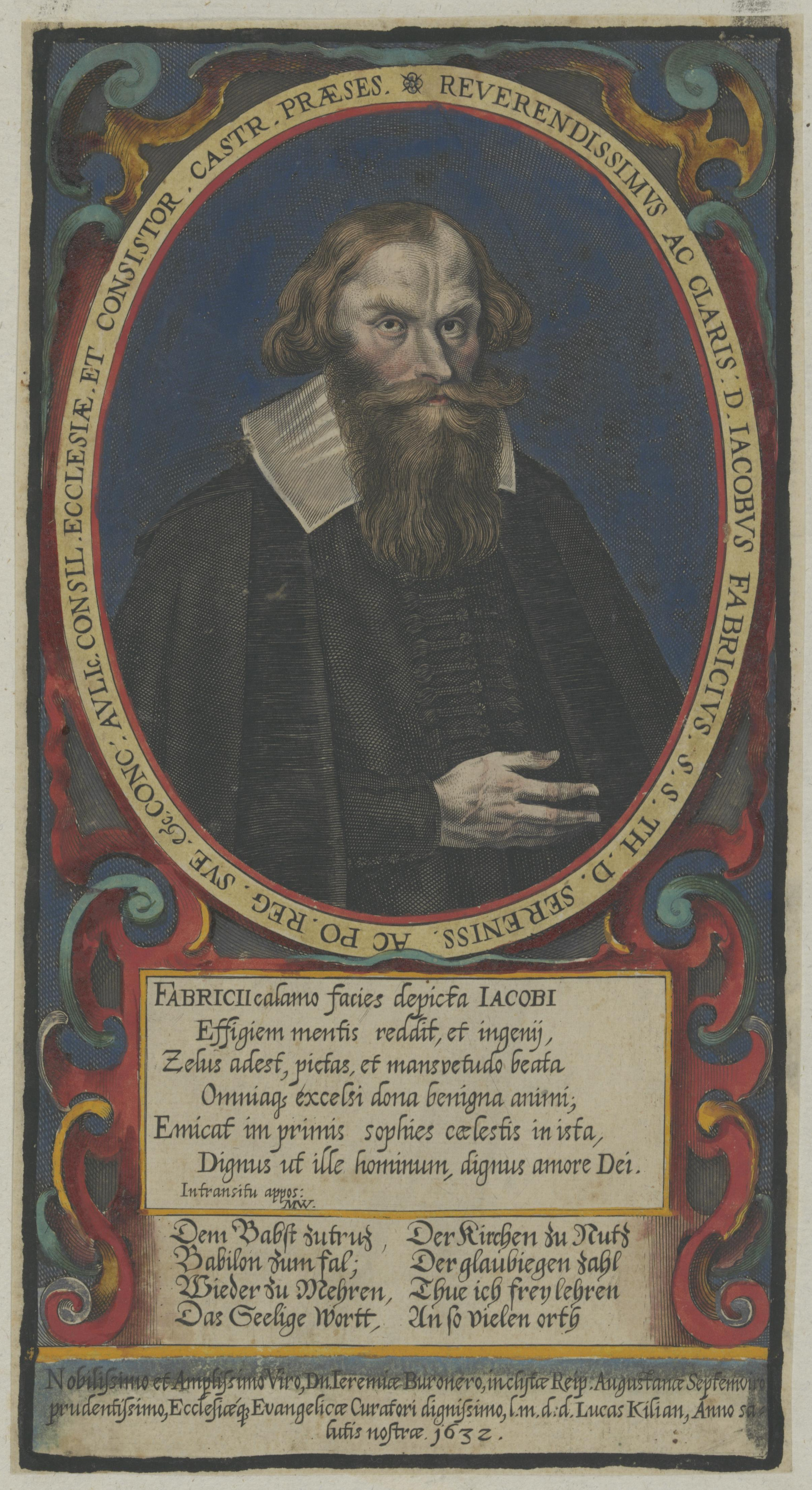 Colored engraving of Jakob Fabricius (1593–1654)